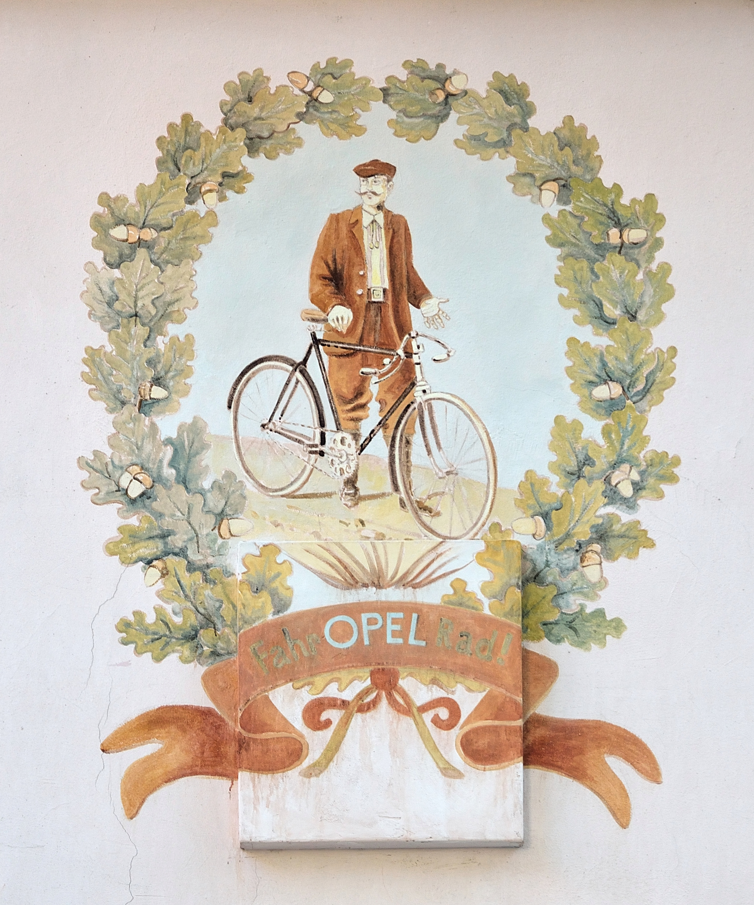 Old bicycle advertising for OPEL bikes at Sobieskiplatz 6, Vienna.